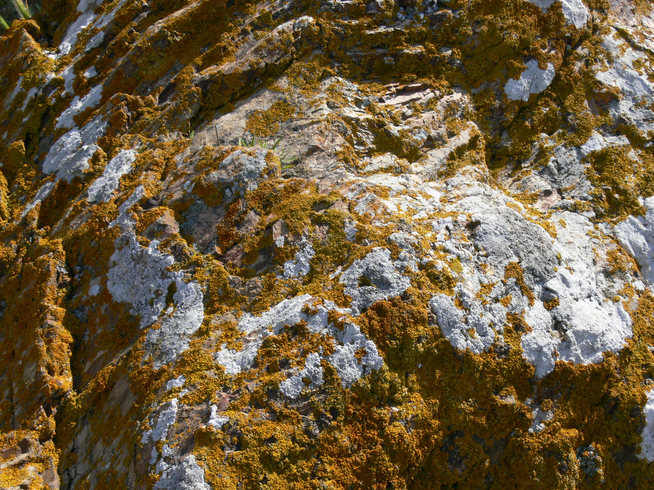 Volterraio ( Elba ). Rocks and lichen.